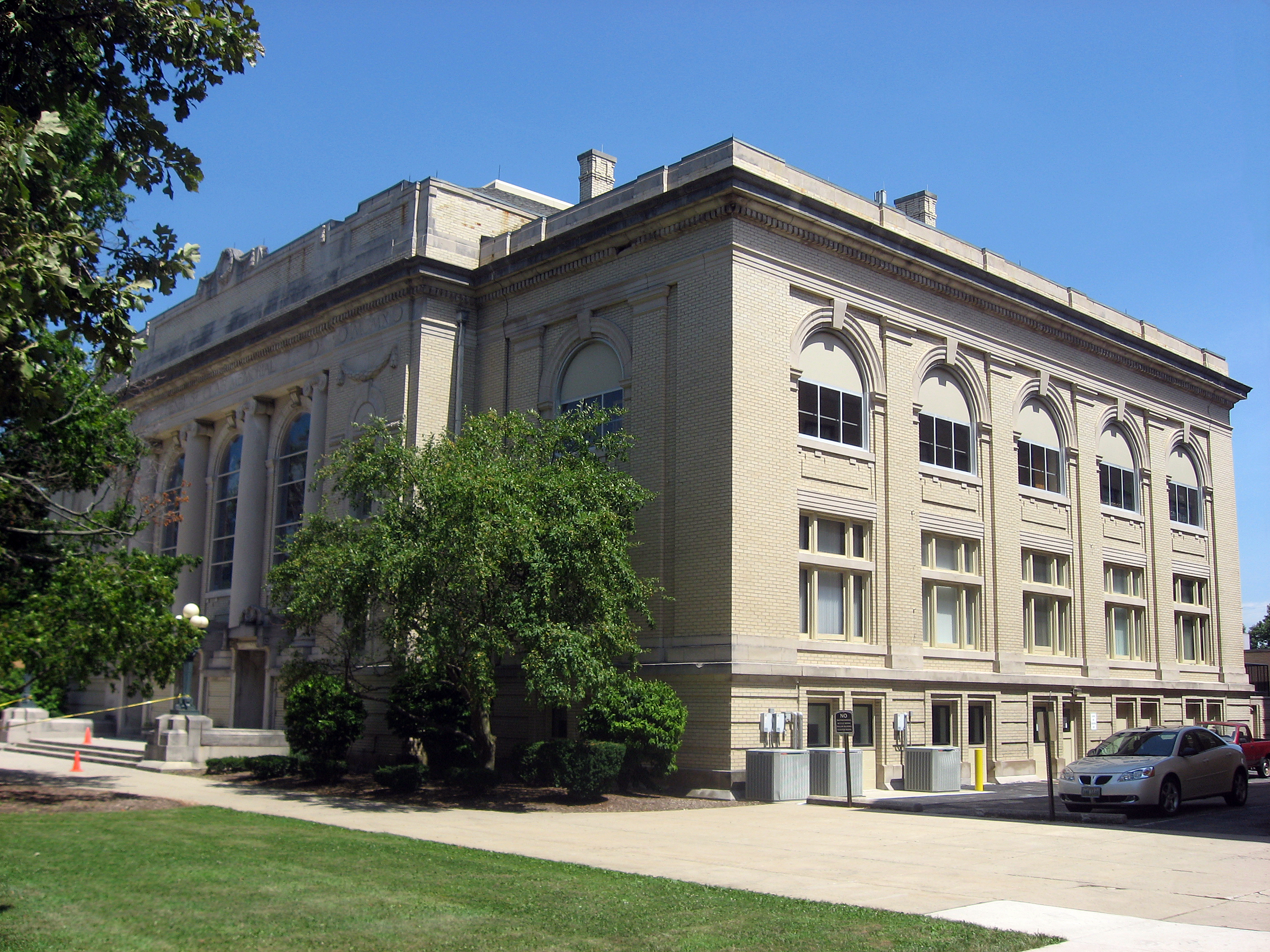 Front of the Henry St. Clair Memorial Hall, located along W. Fourth Street adjacent to the Greenville Carngie Library in Greenville, Ohio, United States. Built in 1910, it is listed with the library on the National Register of Historic Places.